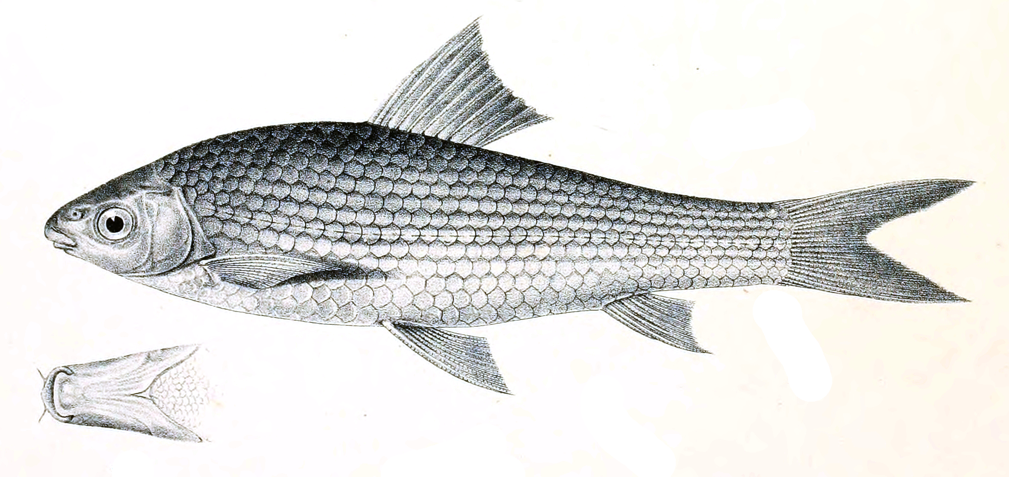 The species names / identity need verification - original names from plate are included here. The original plates showed the fishes facing right and have been flipped here. Cirrhina reba